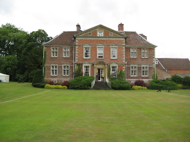 Urchfont Manor (2). This is the east façade of the manor house, whose history is briefly told here 1403212 This side of the building, although built only about nine years after the original house, is markedly different, its seven bays with a pediment over the three central ones in the then very modern Wren or Queen Anne style being designed to create the impression that the house was much larger than it really was. The rear of the north end of this extension can be seen in the other image and demonstres the difference between the two parts of the building. The manicured lawn in front is a croquet pitch.